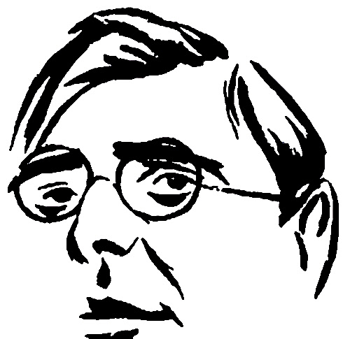 Ink portrait of the Romanian poet Ion Minulescu.